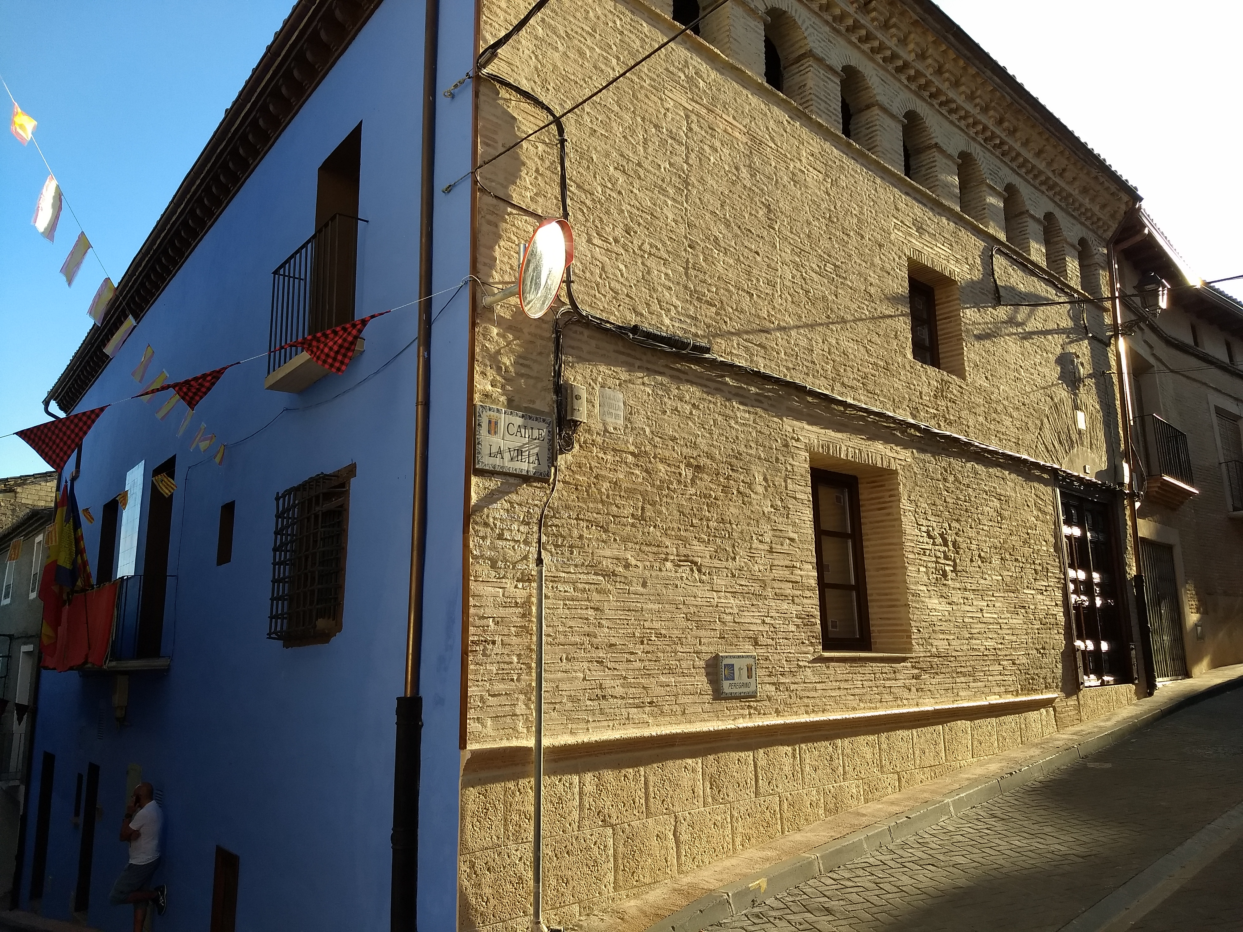 Town hall in Magallon (Aragon) between 17th century and 1986.